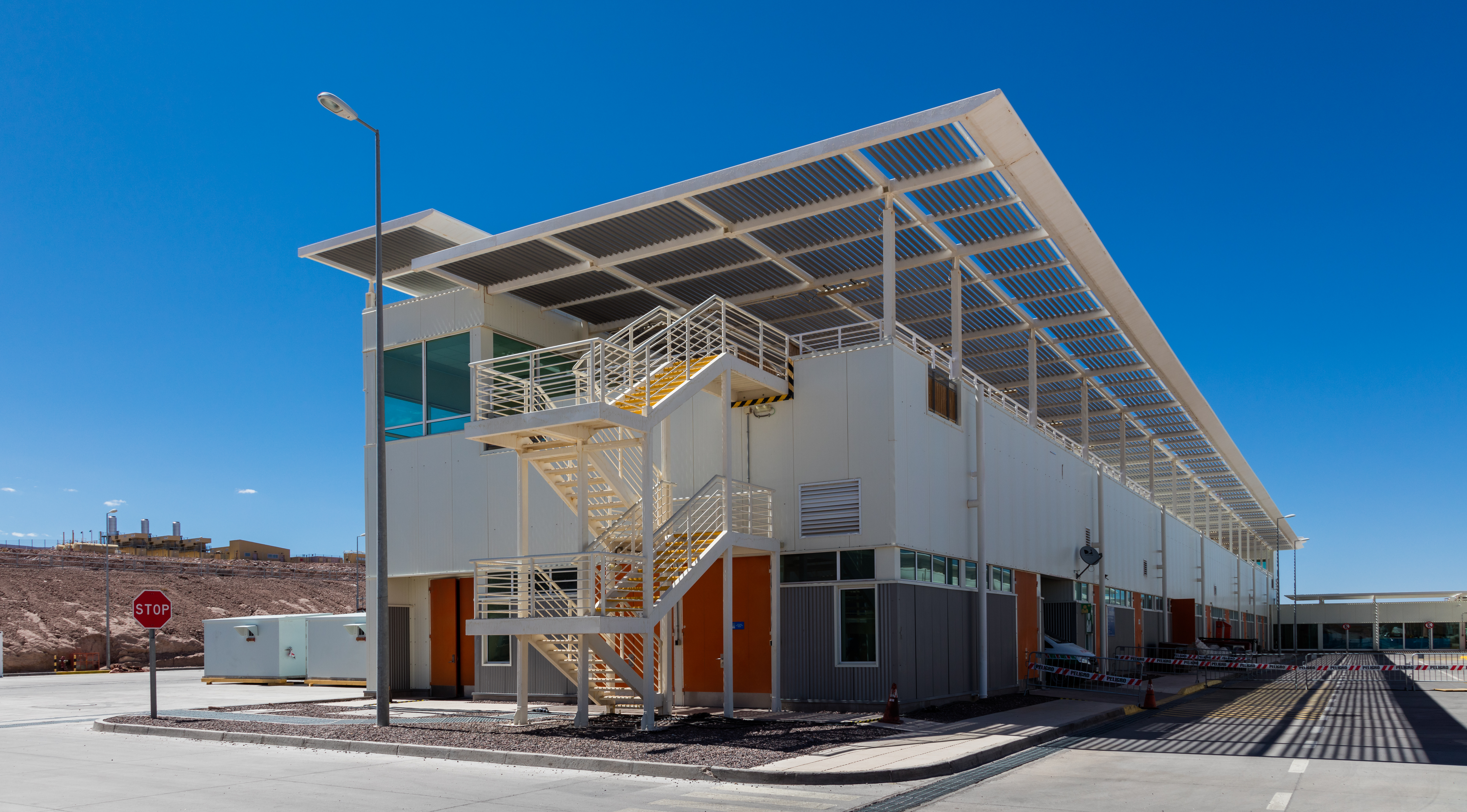 ALMA (Atacama Large Millimeter Array) space observatory, Atacama desert, Chile